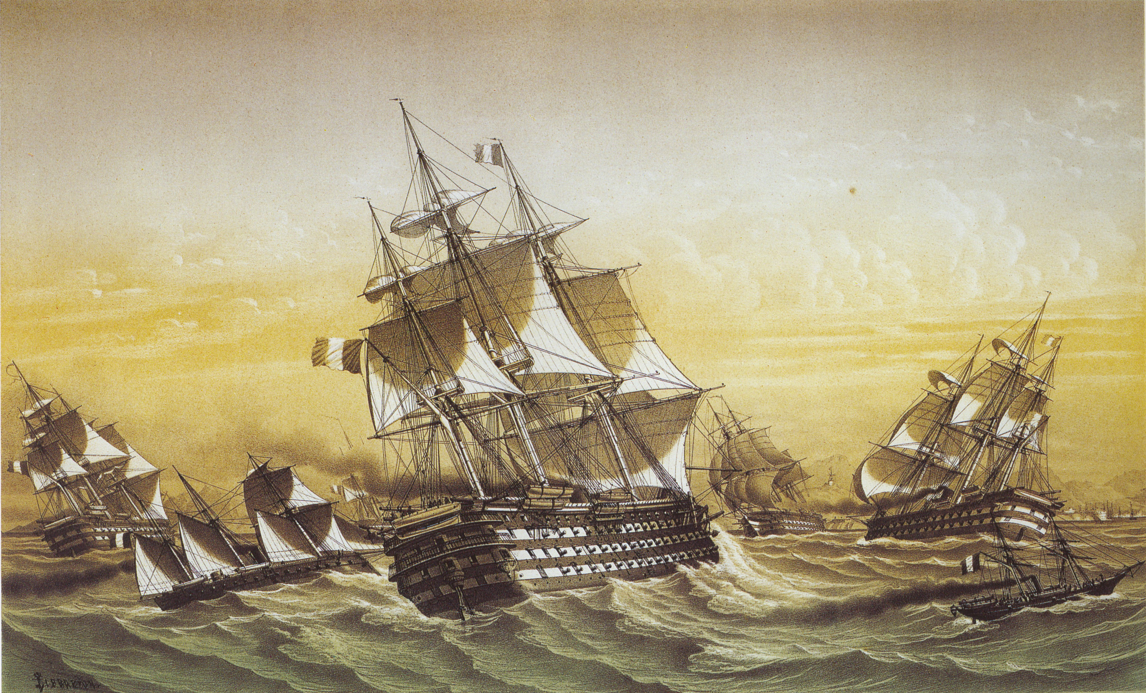 The escadre d'évolution, under vice-admiral Penaud. The ships Ville de Paris, Algésiras (ex-Napoléon) and Gloire can be seen.